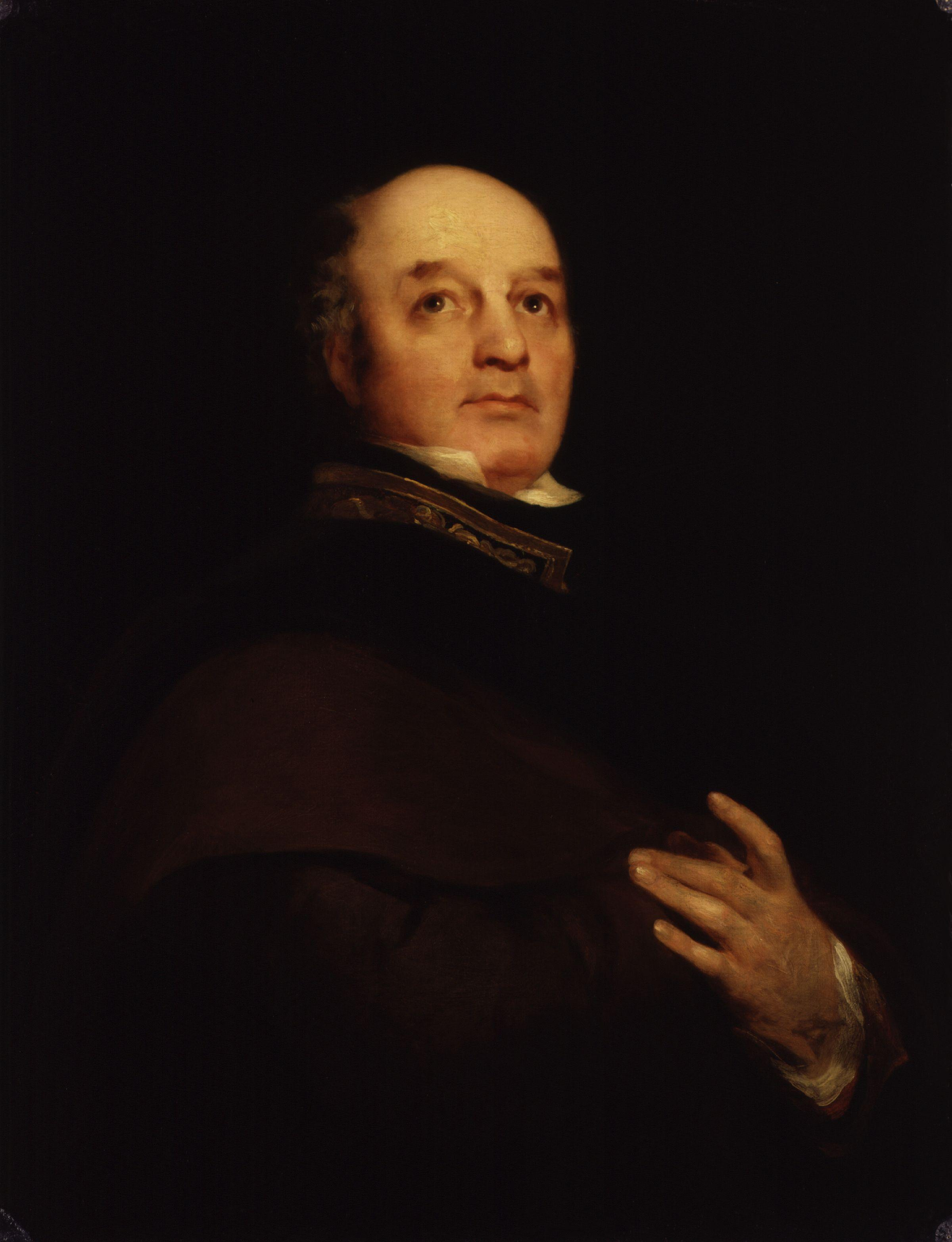 William Carr Beresford, Viscount Beresford, by Richard Rothwell (died 1868), given to the National Portrait Gallery, London in 1870. All images in this batch have been confirmed as author died before 1939 according to the official death date listed by the NPG.